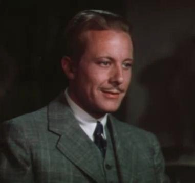 Gene Raymond in Smilin' Through (1941) - trailer (cropped screenshot)